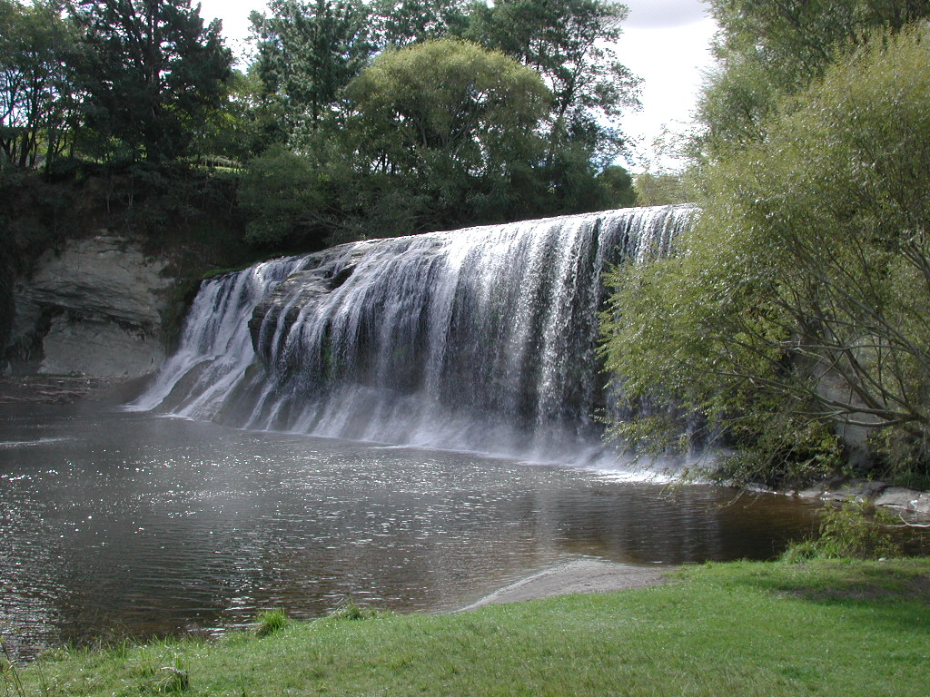 Rere Falls on Wharekopae River.